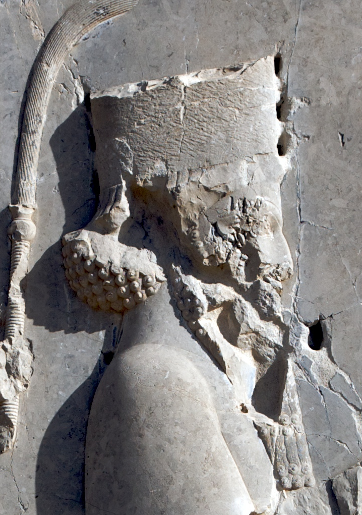 Xerxes I at the Tripylon